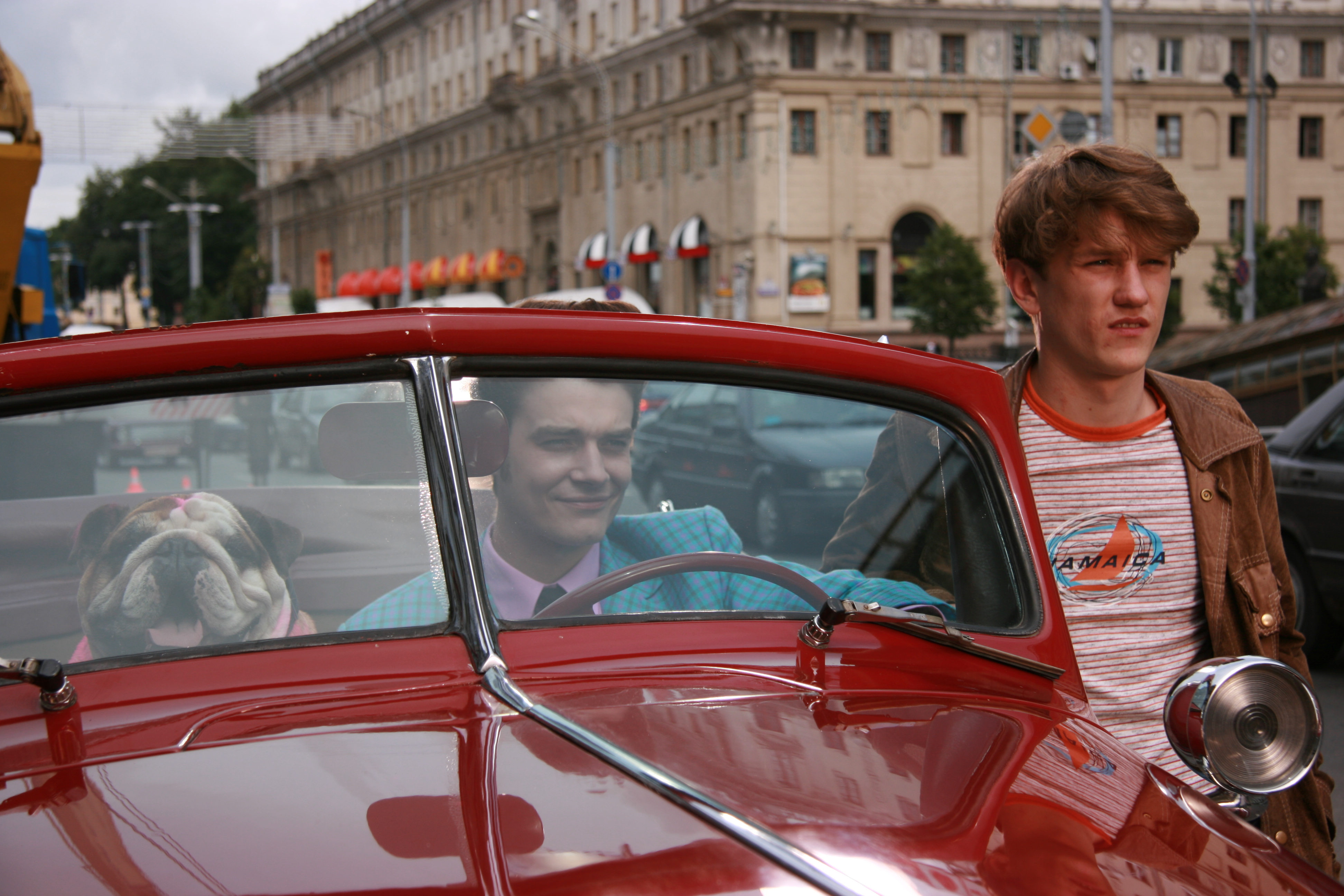 Anton Shagin and Maxim Matveev with Bulldog Filya on Independence avenue, Minsk (production of "Stilyagi")